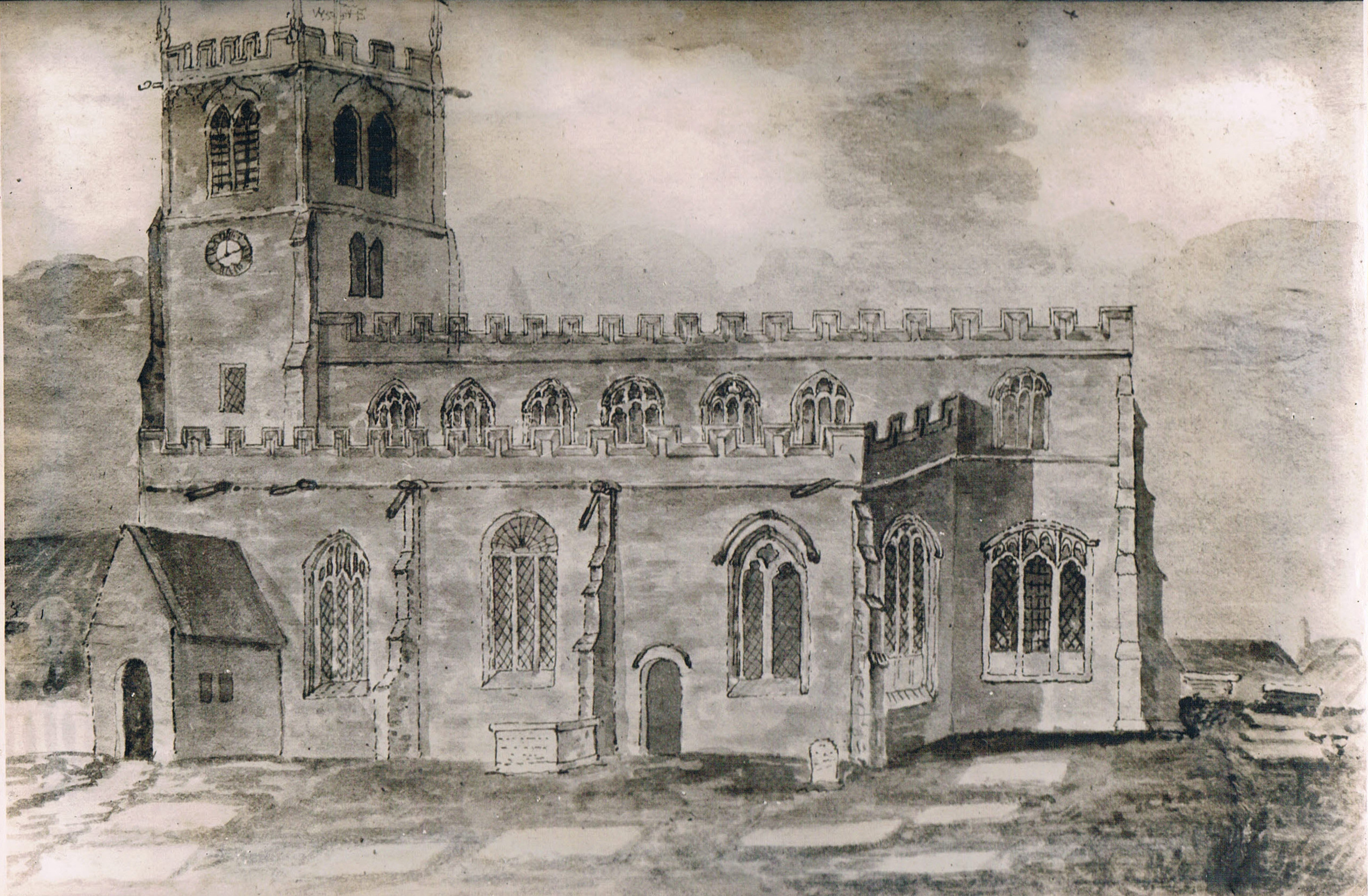 St Mary's Church, Sandbach around 1800. Engraving. Source: St Mary's Church website